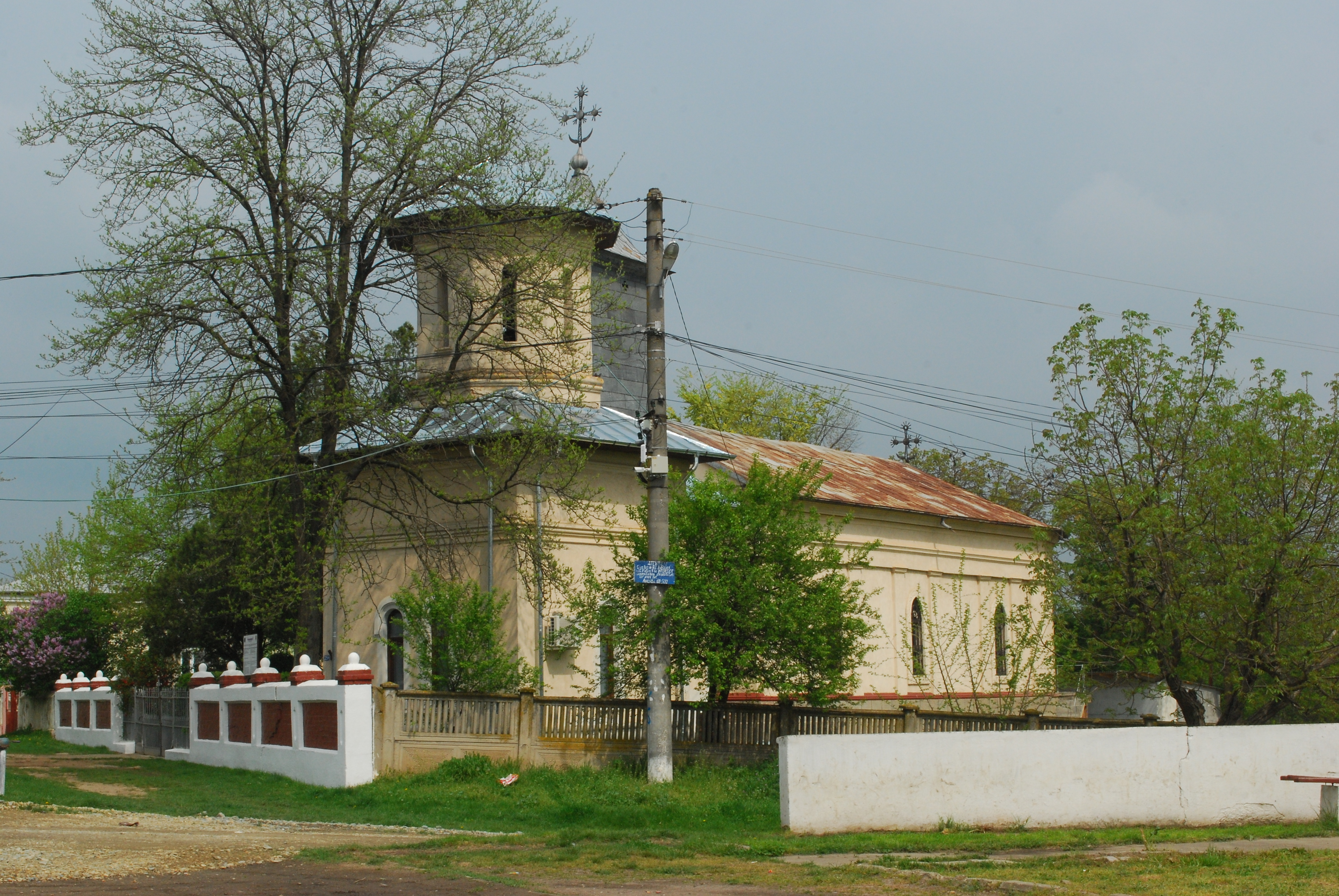 Saint Panteleimon's church in Vedea, Giurgiu County, Romania